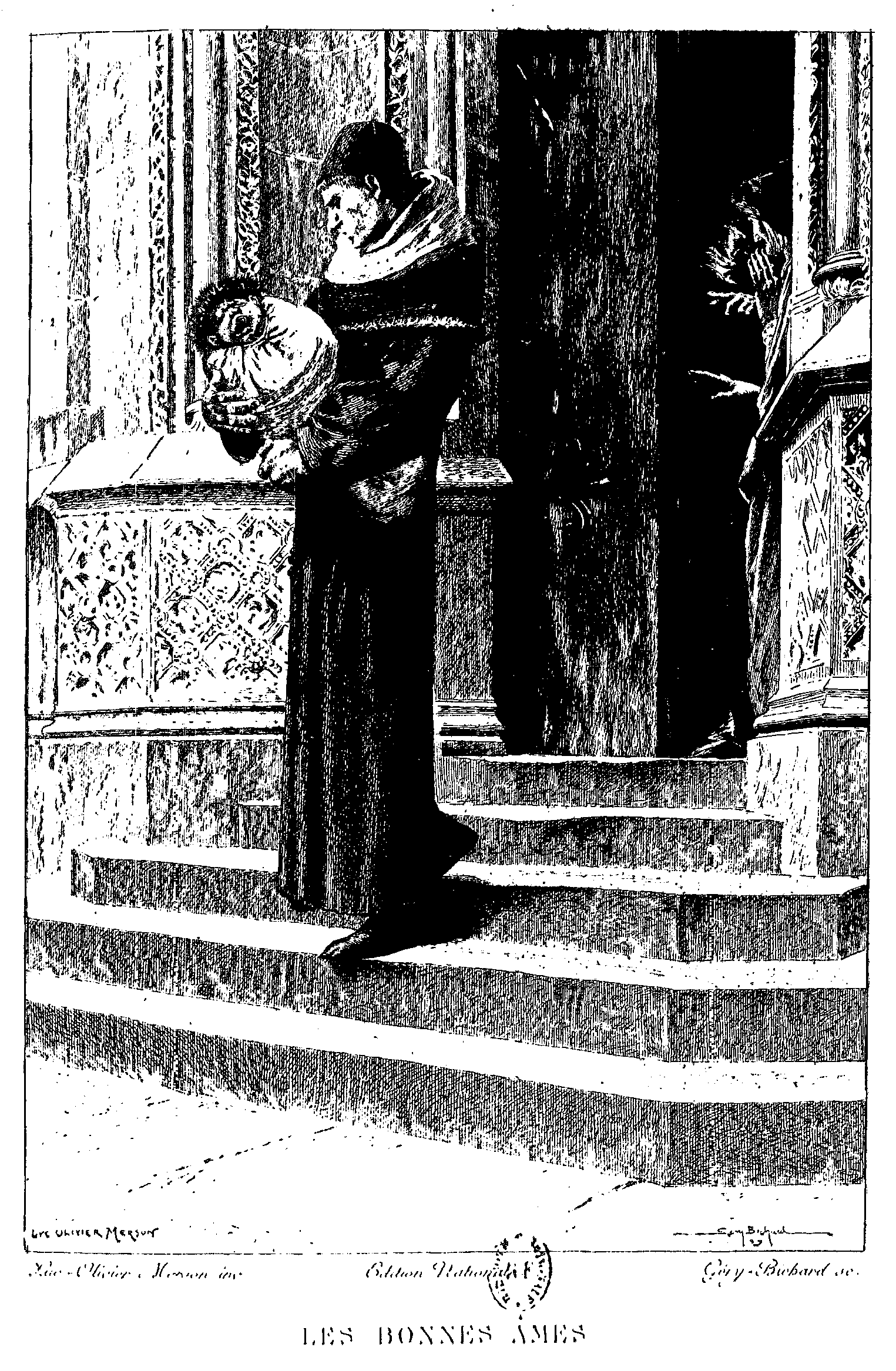 The illustration before page 219 in book 4 of Notre-Dame de Paris (The Hunchback of Notre Dame) by Victor Hugo, from the 1889 edition.